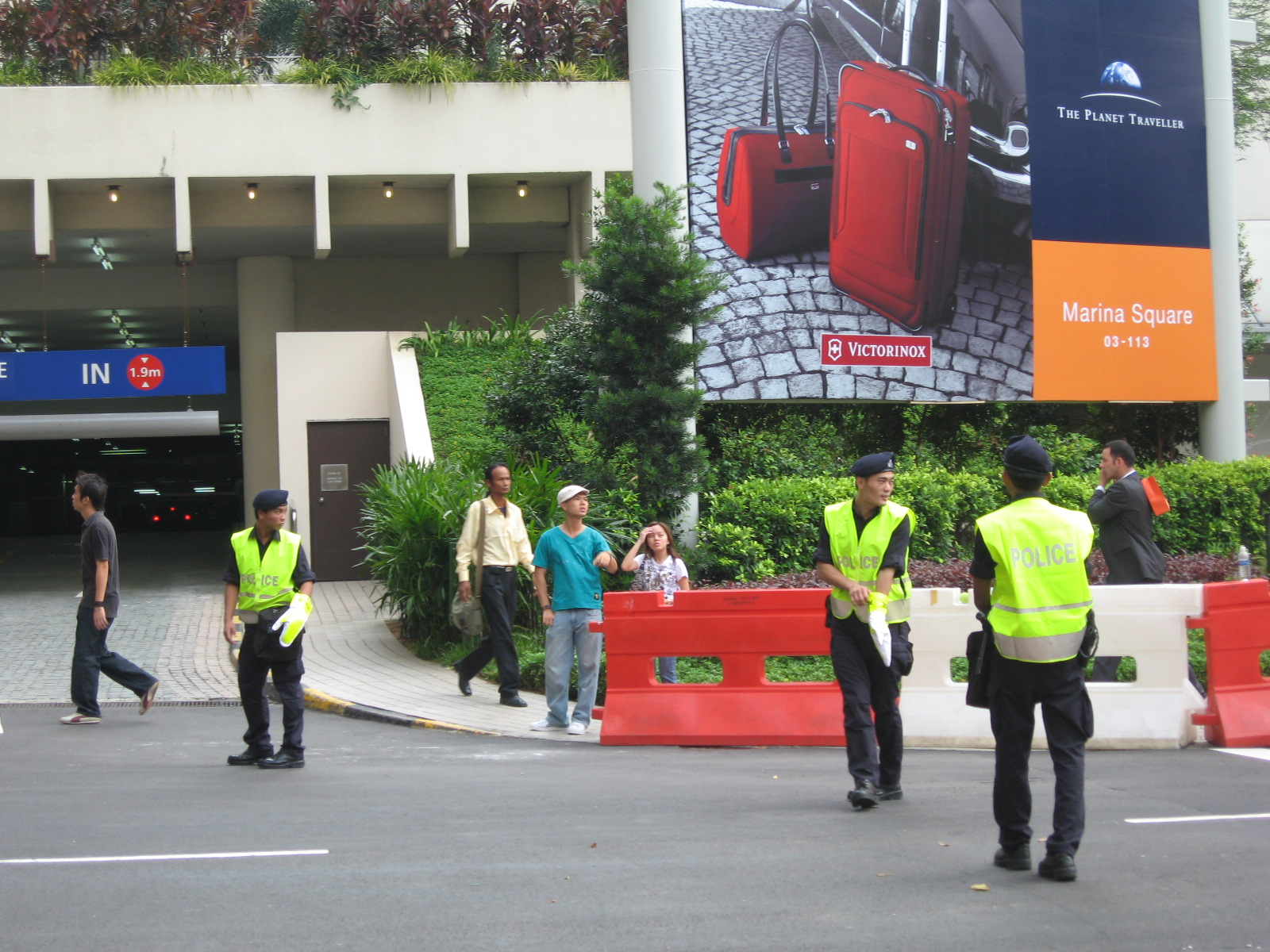 Policemen outside Marina Mandarin Singapore during Singapore 2006.